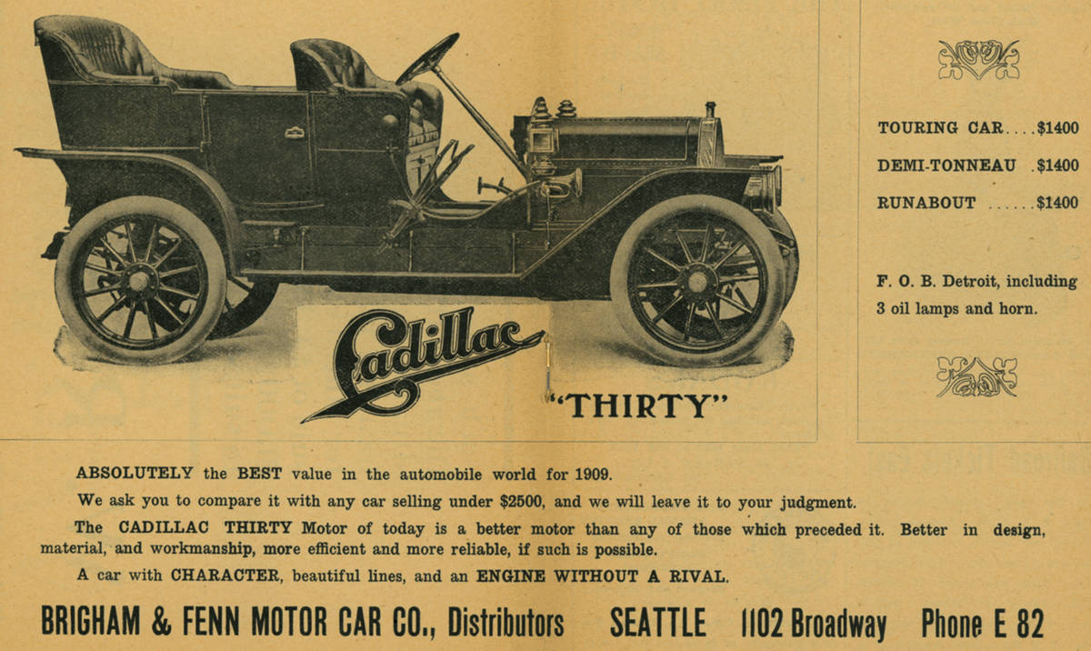 In 1908, Cadillac introduced the Model Thirty to consumers at a lower basic price ($1400) than its Model G ($2000). It offered three versions of the Model Thirty: a 5-passenger touring car, a 4-passenger demi-tonneau, and a 3-passenger roadster. On July 29, 1909, the Cadillac Automobile Company was purchased by General Motors. Geographic coverage: United States--Washington (State)--Seattle Subjects (LCTGM): Automobiles; Automobile dealerships--Washington (State)--Seattle Subjects (LCSH): Cadillac automobile